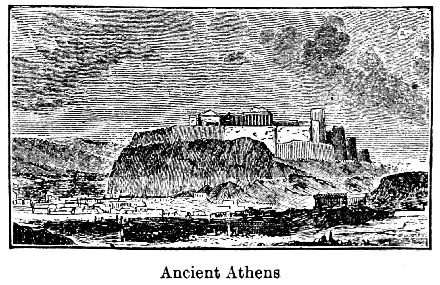 Ancient Athens at the time of Xerxes